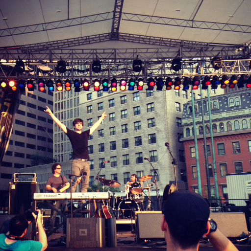 Adam Jensen on stage at the Outside The Box music festival at City Hall Plaza in Boston, Massachusetts.